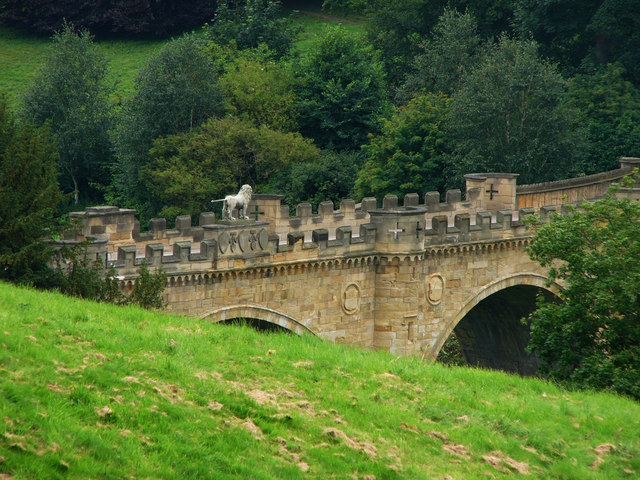 The Lion Bridge, near Alnwick, Northumberland, England.